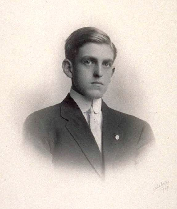 Sidney Howard (1891-1939), American playwright and screenwriter. First to win both a Pulitzer Prize and an Academy Award.